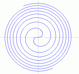 Fermat's spiral